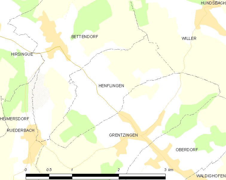 Map of French municipality